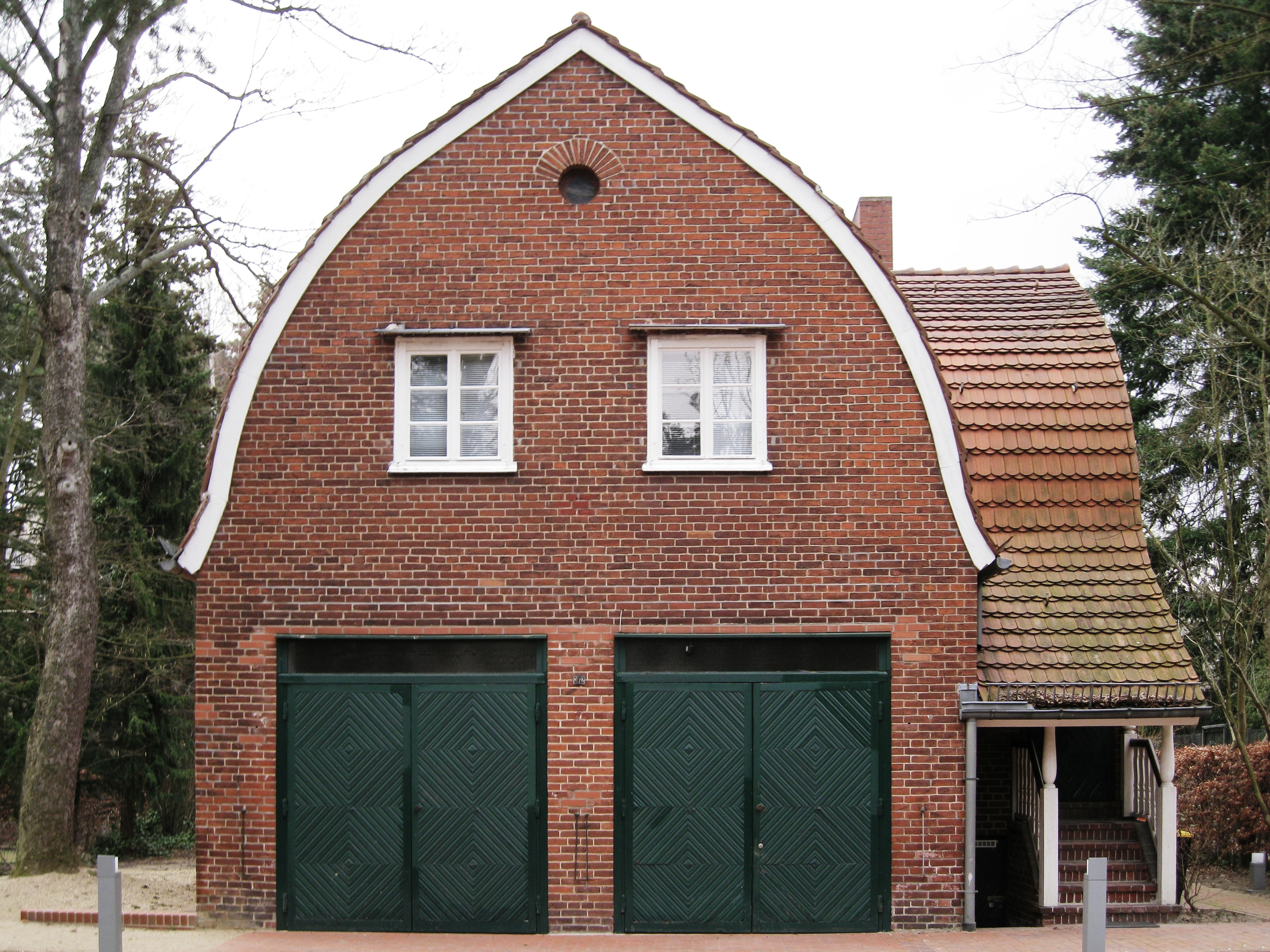 Chauffeur home with double garage in Berlin-Dahlem, planned by Bruno Ahrends (1878–1948) for banker Gustaf Ratjen (1881–1928). The chauffeur home was an addition to the neighbouring cottage which formerly (1911–1917) was in the ownership of Ahrends and his family.